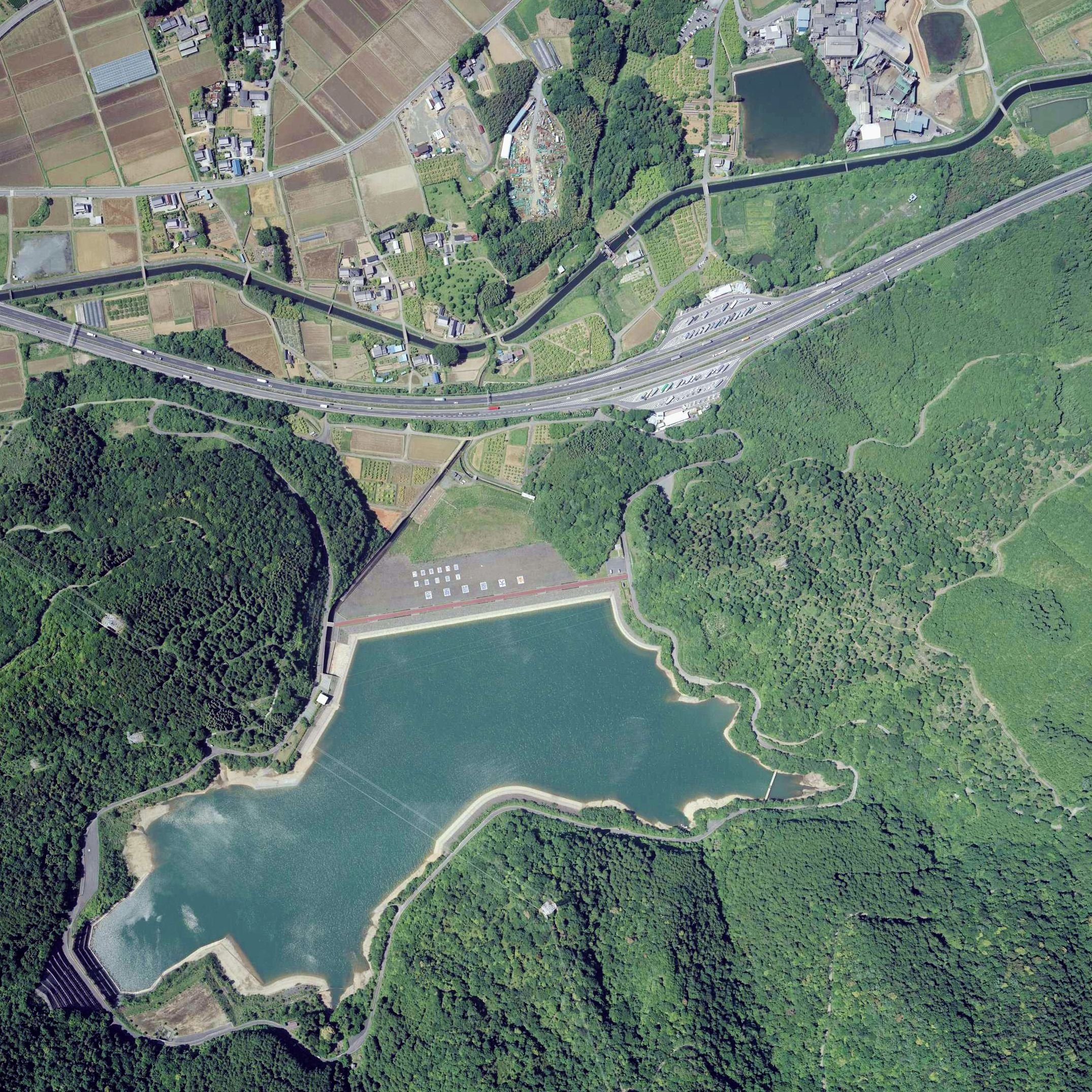 Obara Reservoir and Tōmei Expressway Shinshiro Parking Area.